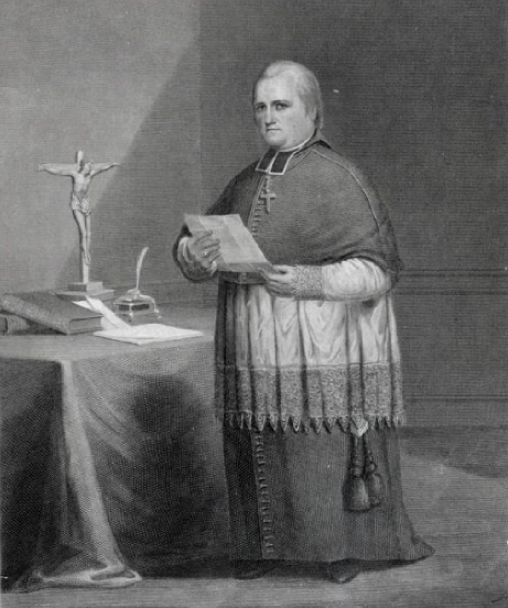 Joseph-Octave Plessis, catholic bishop of Quebec